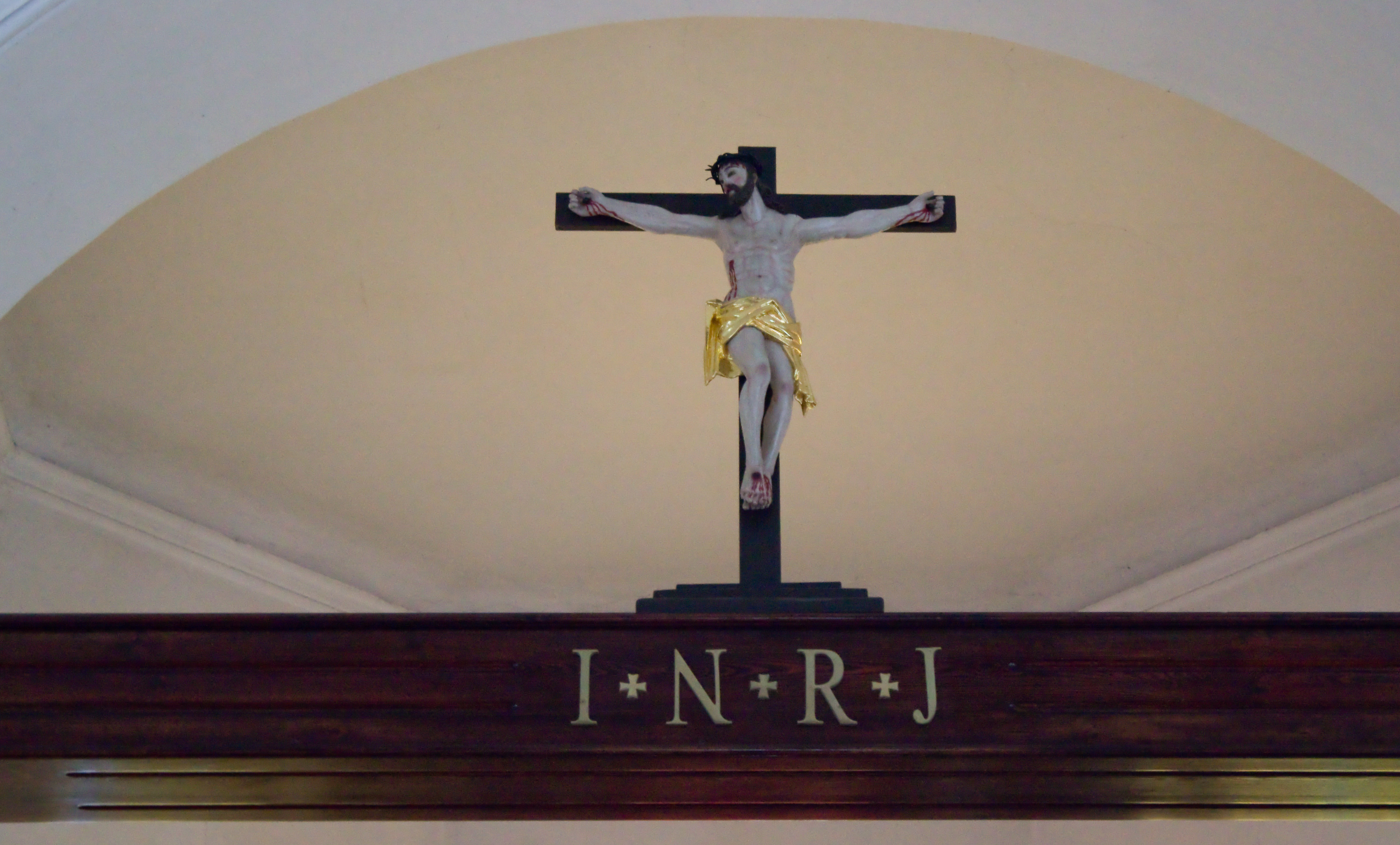 Church, Sterławki Wielkie, gmina Ryn, powiat giżycki, Warmian-Masurian Voivodeship